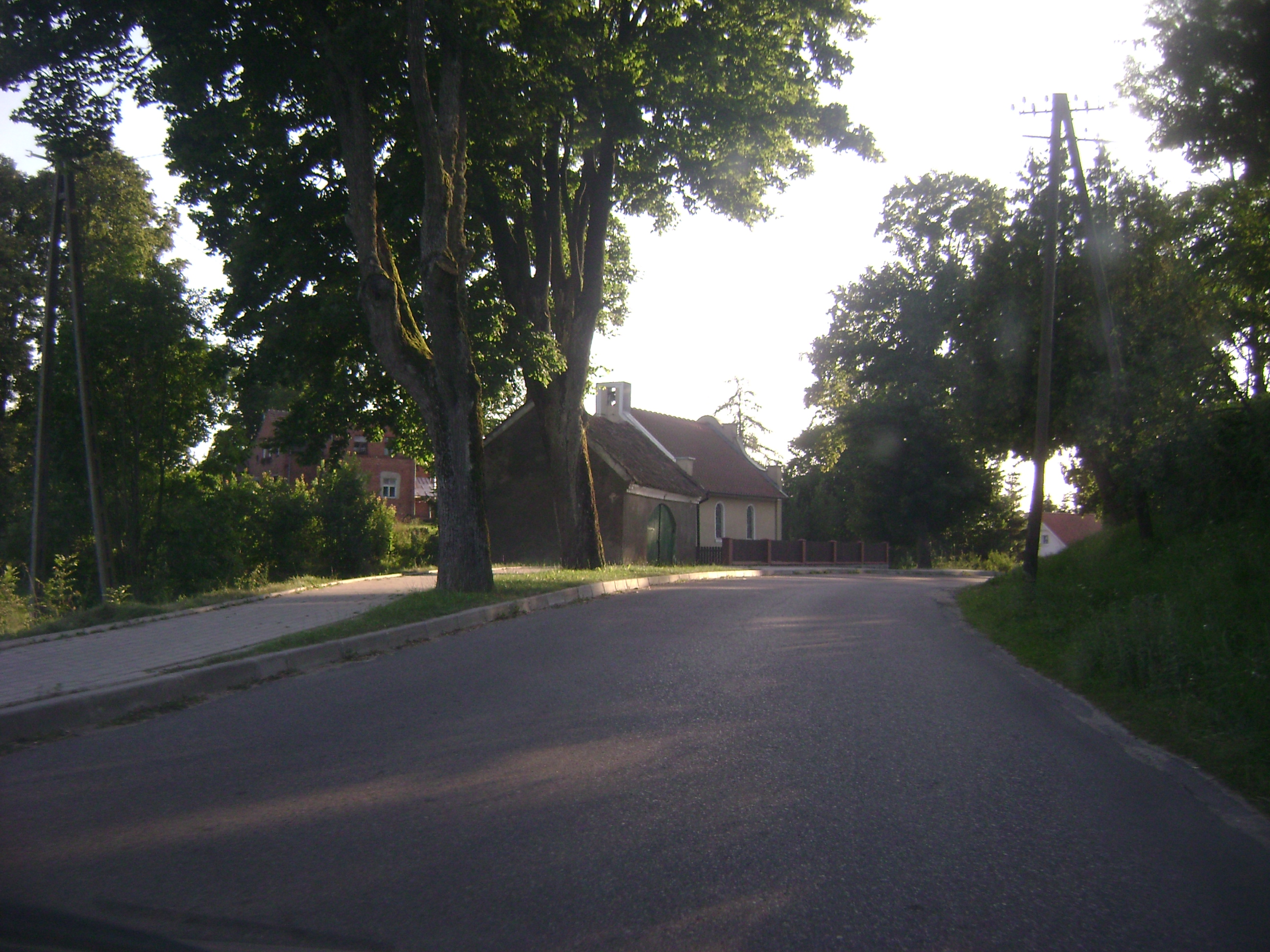 Voivodeship road DW590 (Poland)